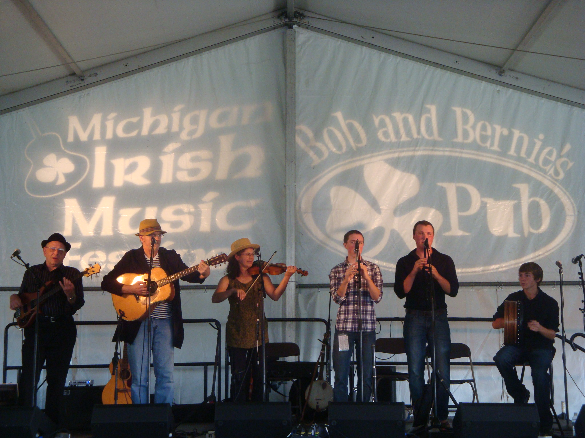 Michigan Irish Fest